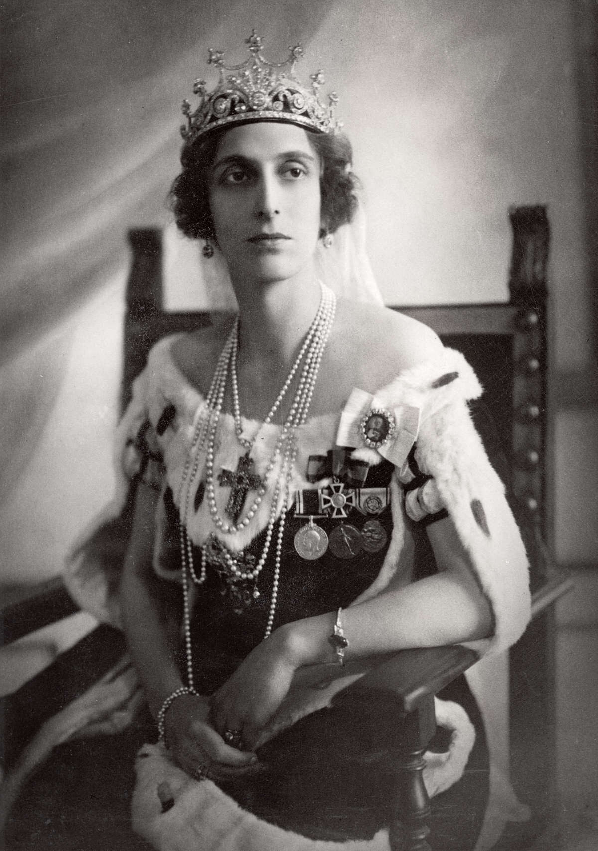 Drottning Louise av Sverige (1889-1965). / HM Queen Louise of Sweden (1889-1965), as Crown Princess, 1925.